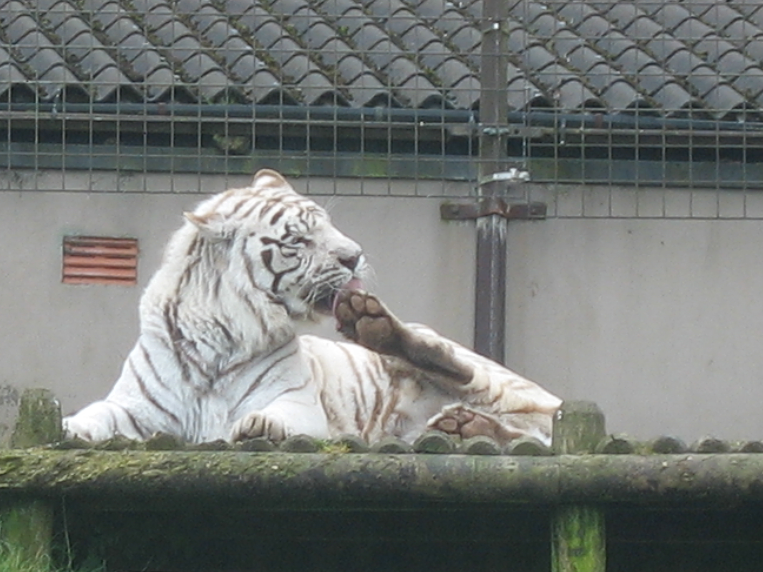 White tiger in Belfast Zoo.